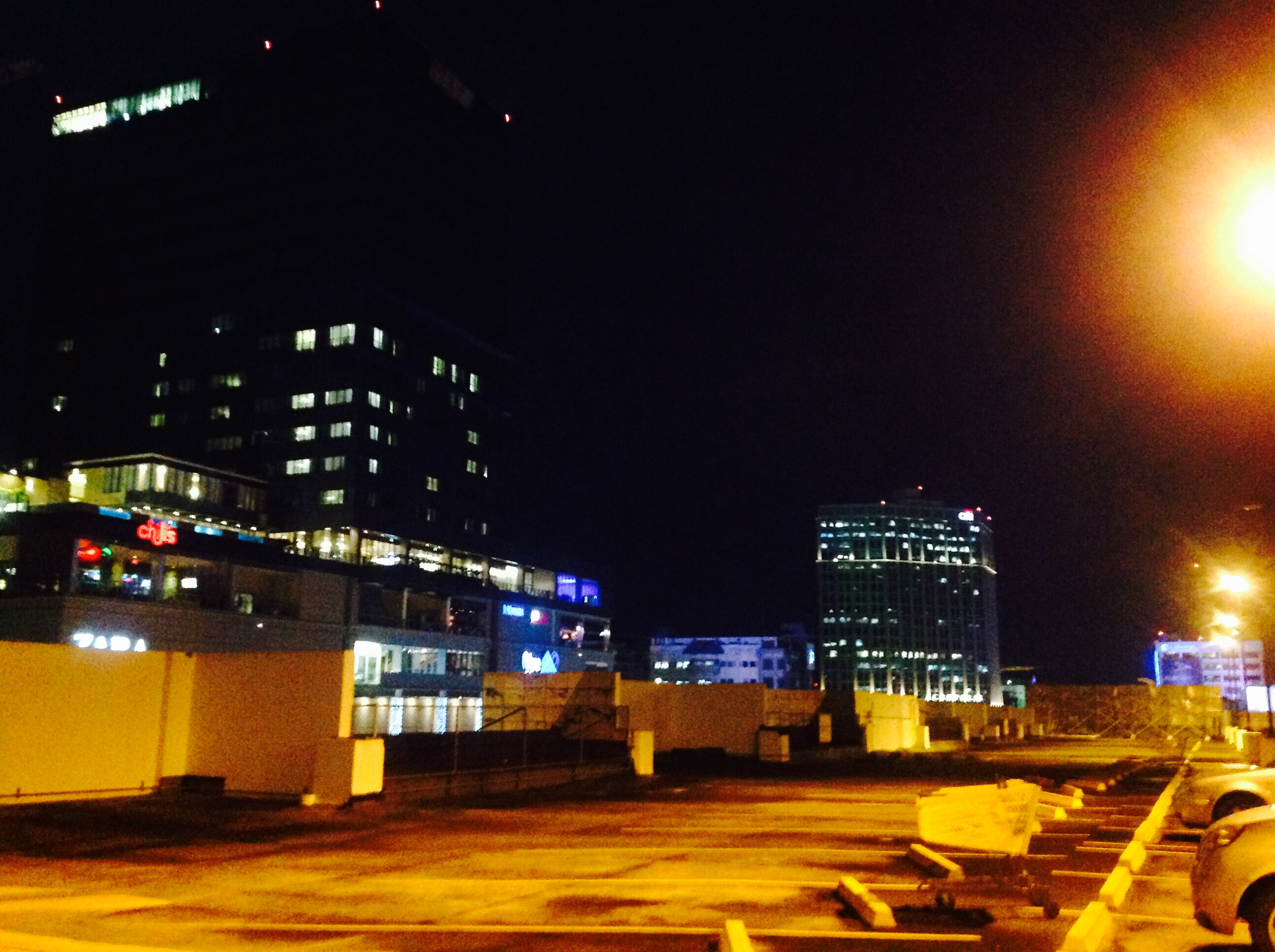 View of sky scrapers in the Financial District at the Winston Churchill Avenue from Multi Centro. (2014).